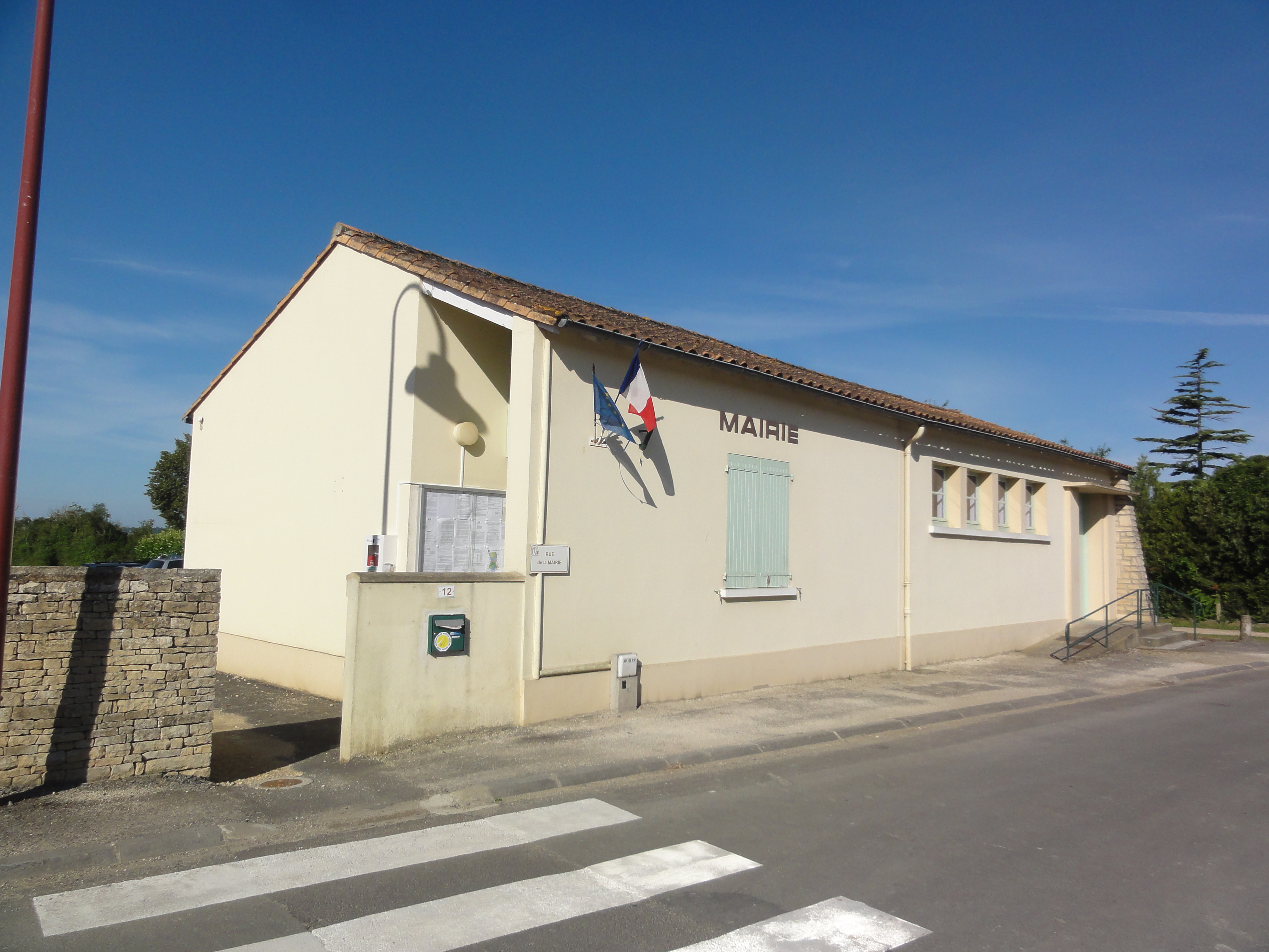 Chenay (Deux-Sèvres) mairie